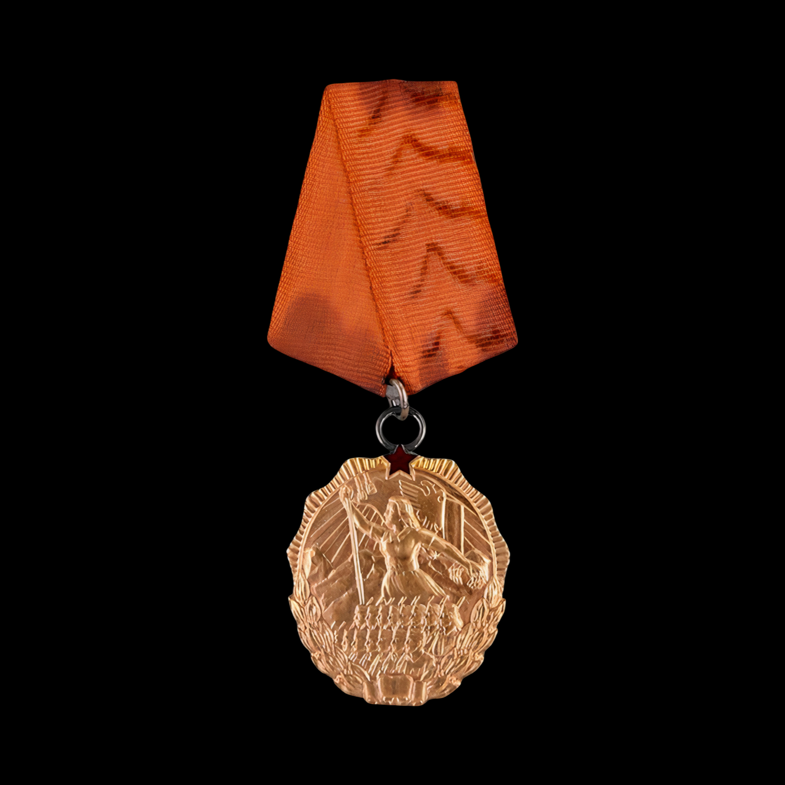 Urdhëri i Flamurit. Instituted in 1945. In solid 22 Kt Gold with red enamels, weighing 27.8 grams inclusive of its ribboned metal suspension, measuring 34.5 mm (w) x 41 mm (h), intact enamels, lightly soiled original ribbon, mounted to a five-sided magnetic metal suspension with pinback.